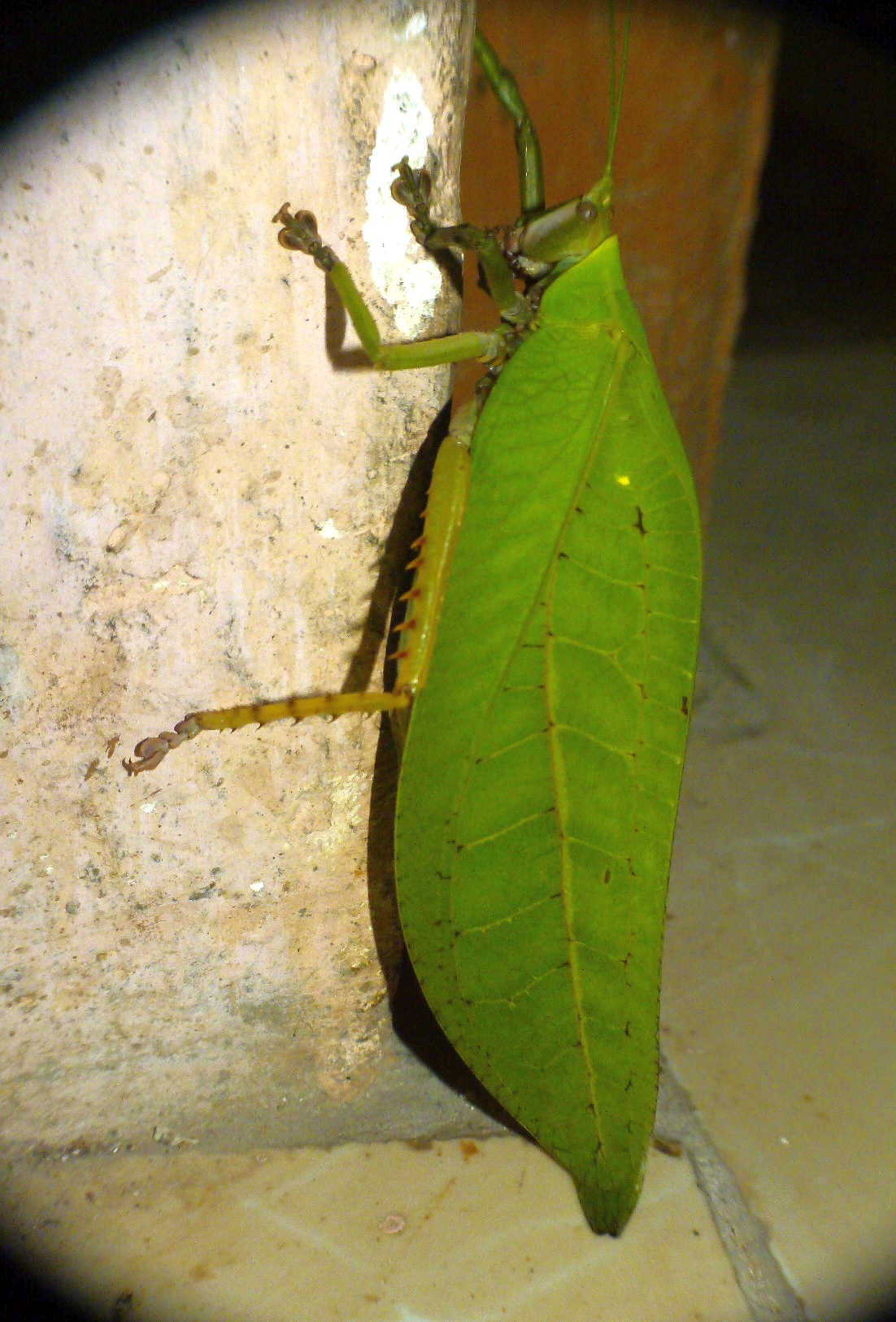 Onomarchus cf. uninotatus, family Pseudophyllinae, Tettigoniidae. Castle Rock, Uttara Kanara, India